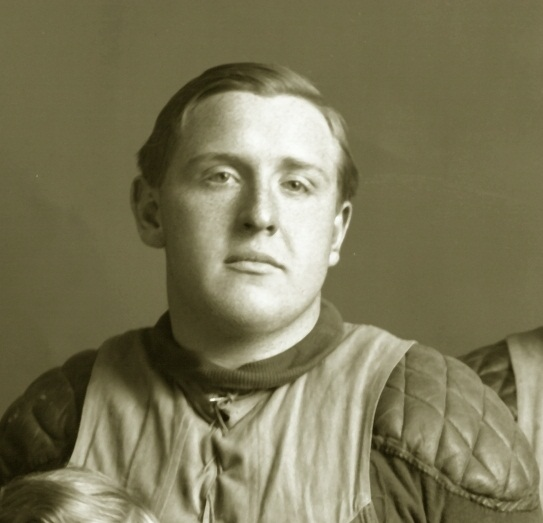 Walter D. Graham